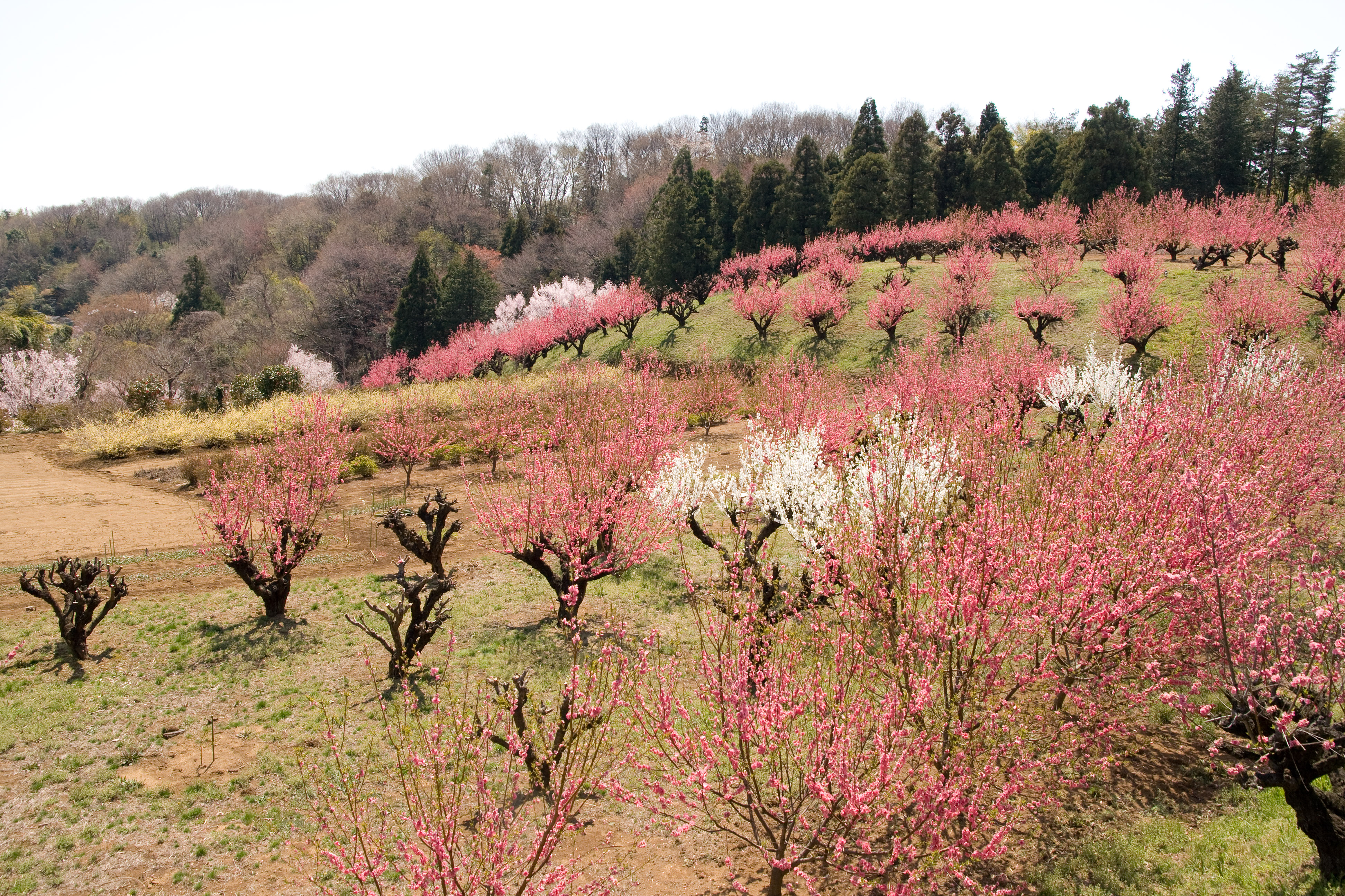 Agriculture-only area in Motoishikawa-cho(元石川町、もといしかわちょう), Aoba Ward, Yokohama City, Kanagawa pref., Japan.